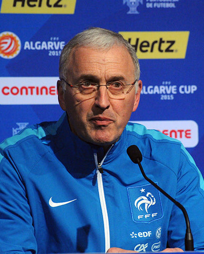 Philippe Bergeroo, 2015 Algarve Cup